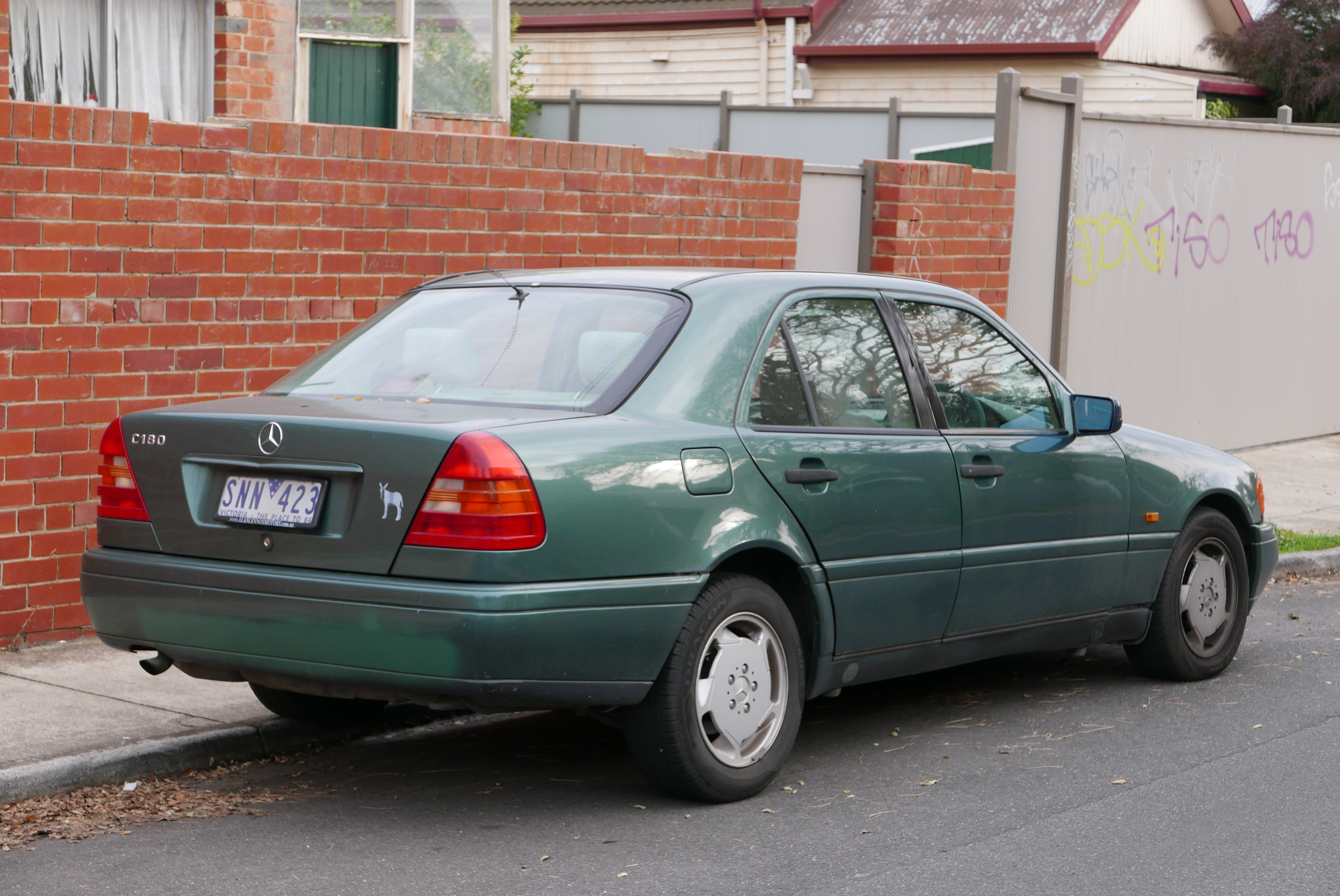 1994 Mercedes-Benz C 180 (W 202) Classic sedan. Although this is listed as the Classic trim level, it has been modified to look more like the Elegance. The orange turn signals integrated into the head and tail lamps (instead of clear) indicate that this is an Esprit or Classic. This car is missing the Elegance’s chrome highlight above the black door handles. Elegance models also featured a chrome highlight above the body coloured side strips and top portion of the bumpers, which this car lacks. Esprit and Classic trims had black plastic side strips without chrome highlights. This car appears to have had its black strips painted aftermarket, reinforced by the lack of chrome highlights and the absence of the trim level badge which would have been removed prior to painting. The alloy wheels appear to be from the Elegance but may have been an option when new for lower trims. Lastly, the beige interior colour scheme suggests this is a Classic as the Esprit had dark interior trim. Photographed in Northcote, Victoria, Australia. Vehicle registration enquiry results Jurisdiction Victoria Registration SNN423 Chassis code WDB2020182F052320 Engine code 11192022014807 Compliance date 1994-03 Year of manufacture 1994